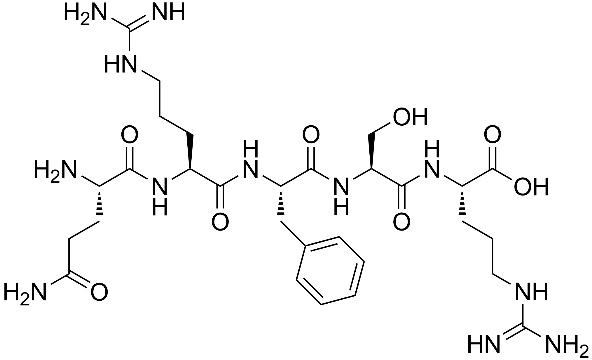 Chemical structure of Opiorphin